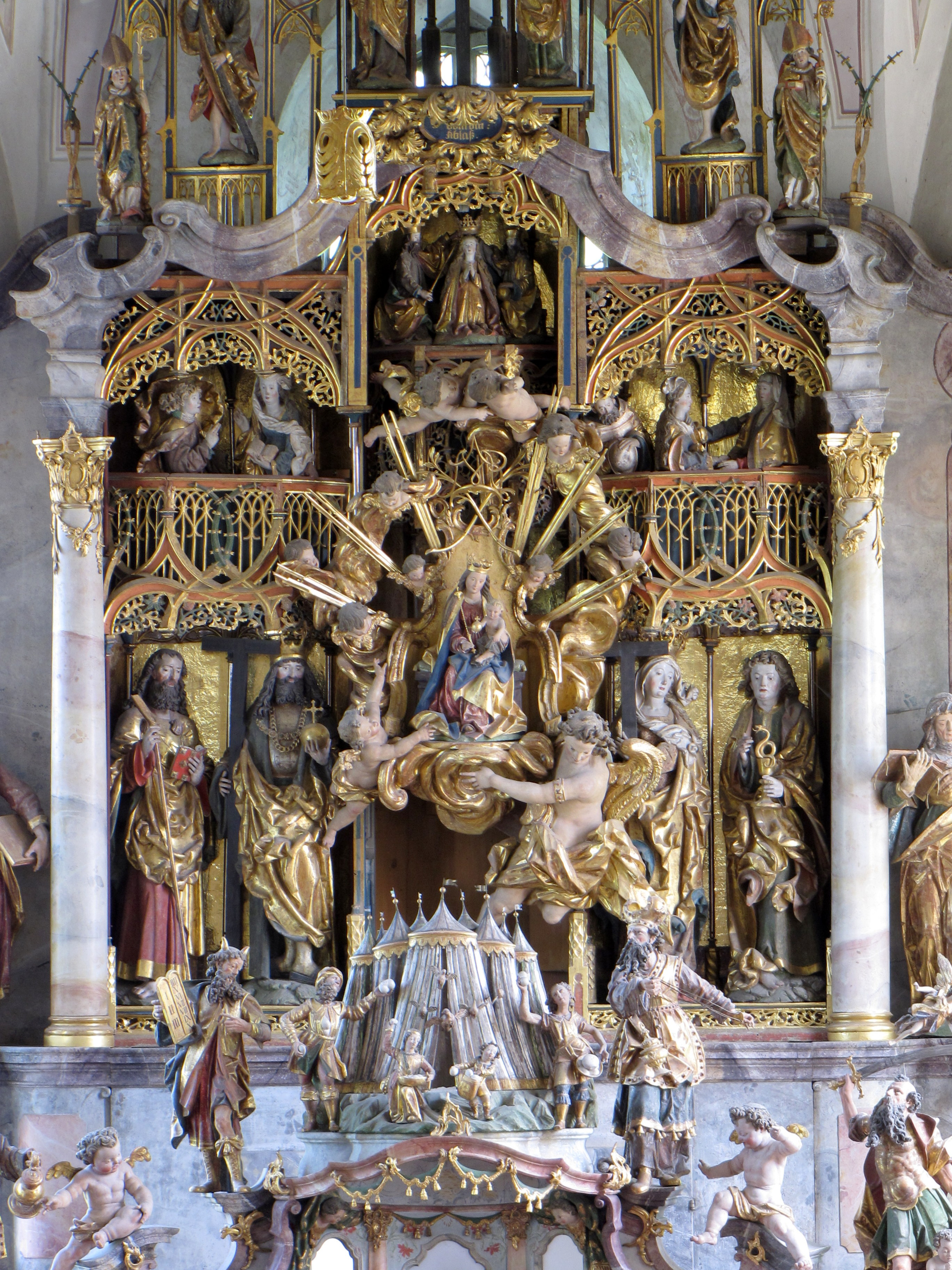 Detail of the high altar in the pilgrimage church Maria Rain